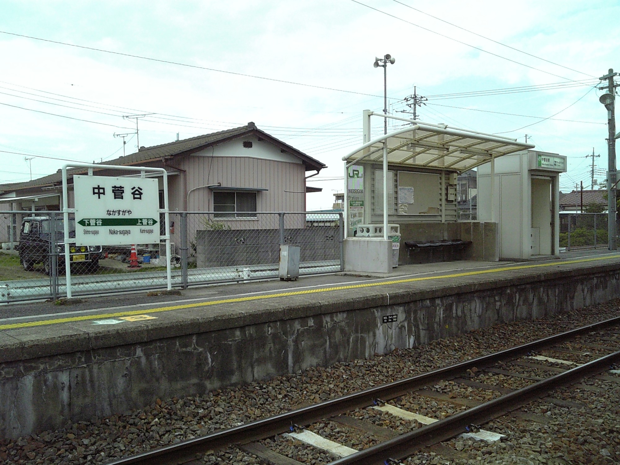 JR East Nakasugaya station.